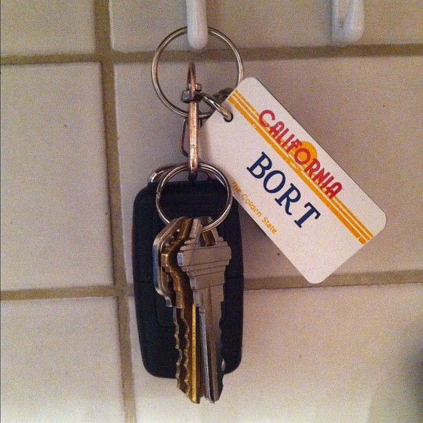 A keychain with a license plate displaying the name "Bort".